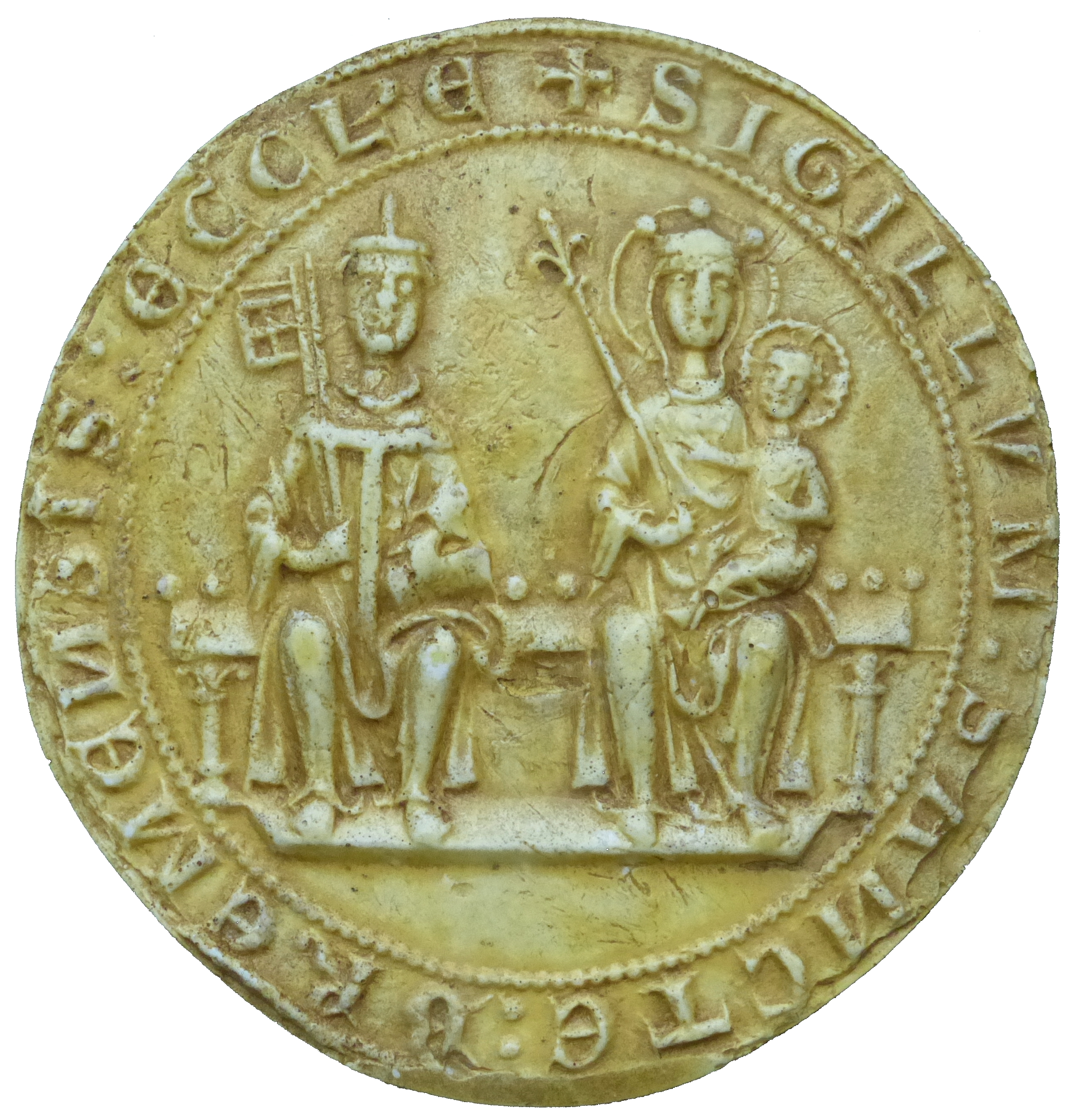 Seal of the chapter of Bremen Cathedral from the 14th century, showing St Peter and St Mary on a bench